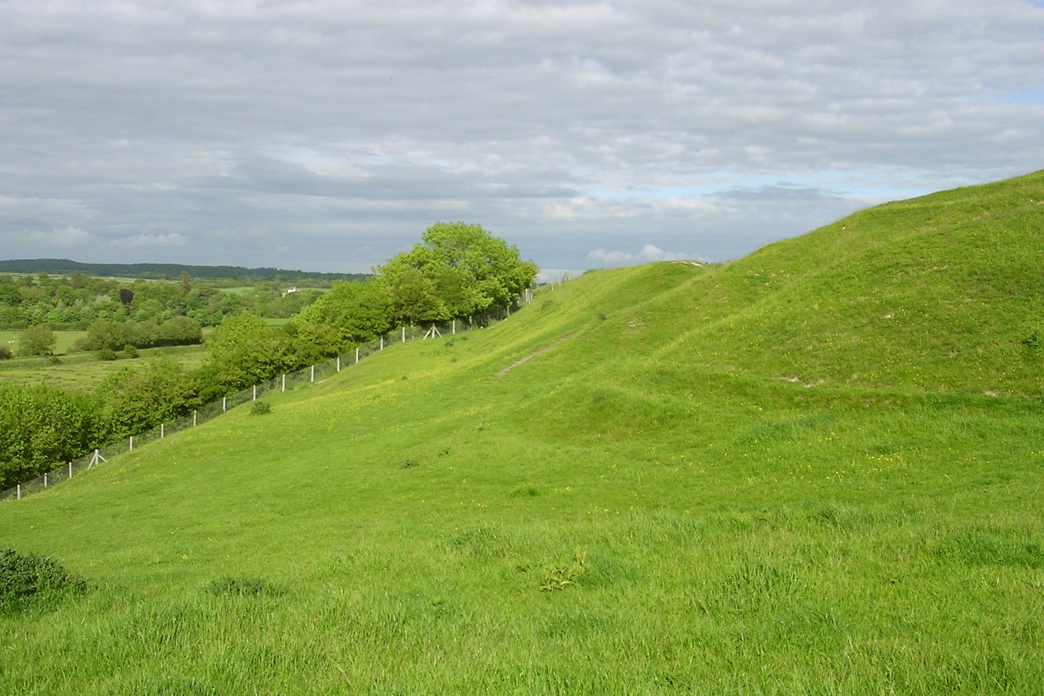 Earthworks at the northwest corner of Poundbury hillfort, Dorchester, U.K. Behind the fence on the left the railway line to Dorchester enters a tunnel beneath the hillfort.